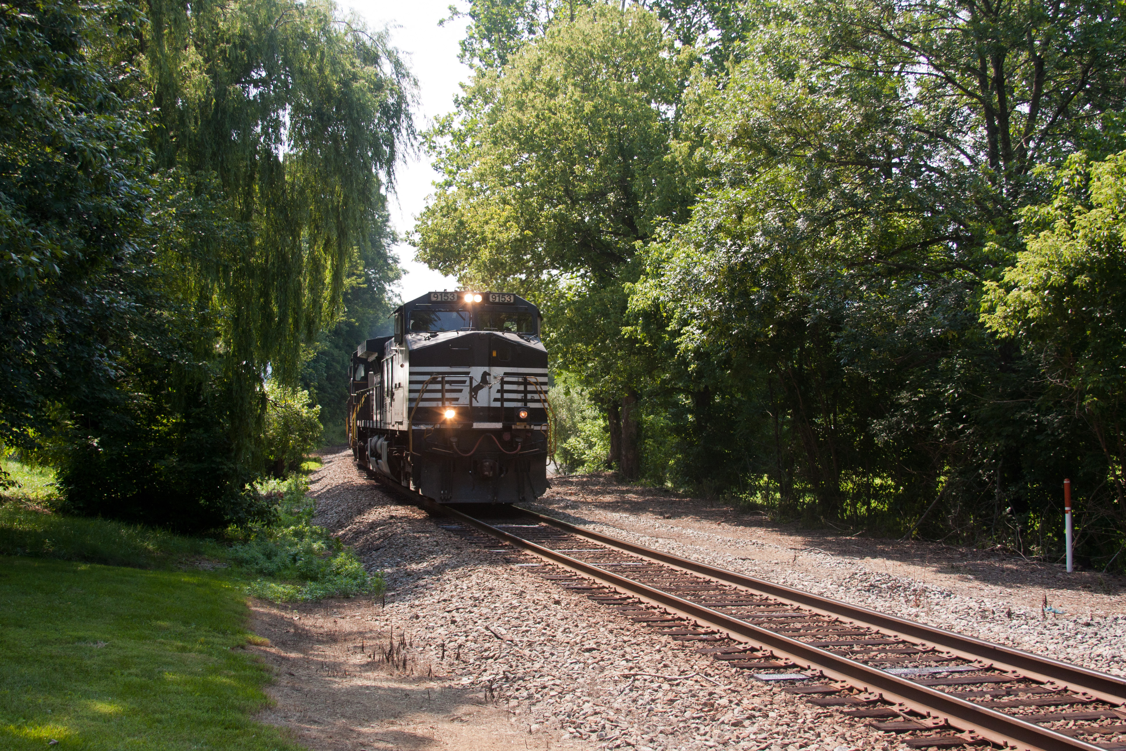 A NS merchandise freight on the 'B' line in Markham, VA.